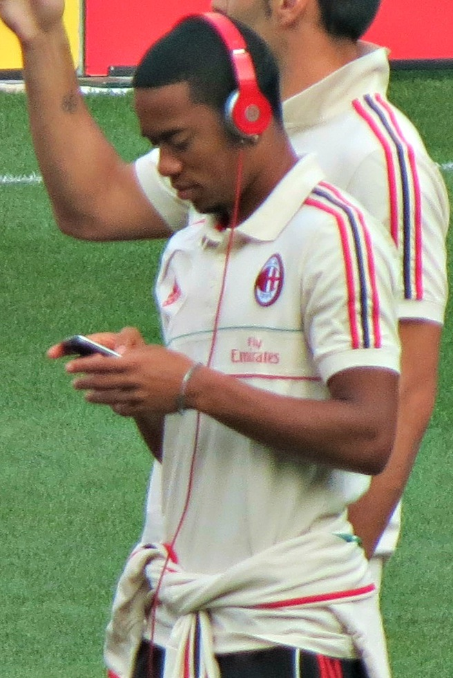 Urby Emanuelson of A.C. Milan.